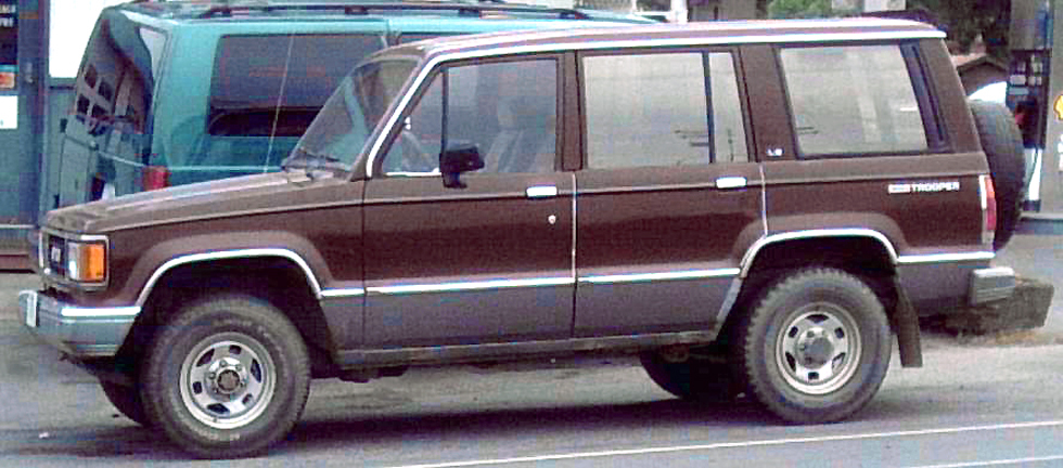 1983-1991 Isuzu Trooper photographed in Vancouver Island, British Columbia, Canada.